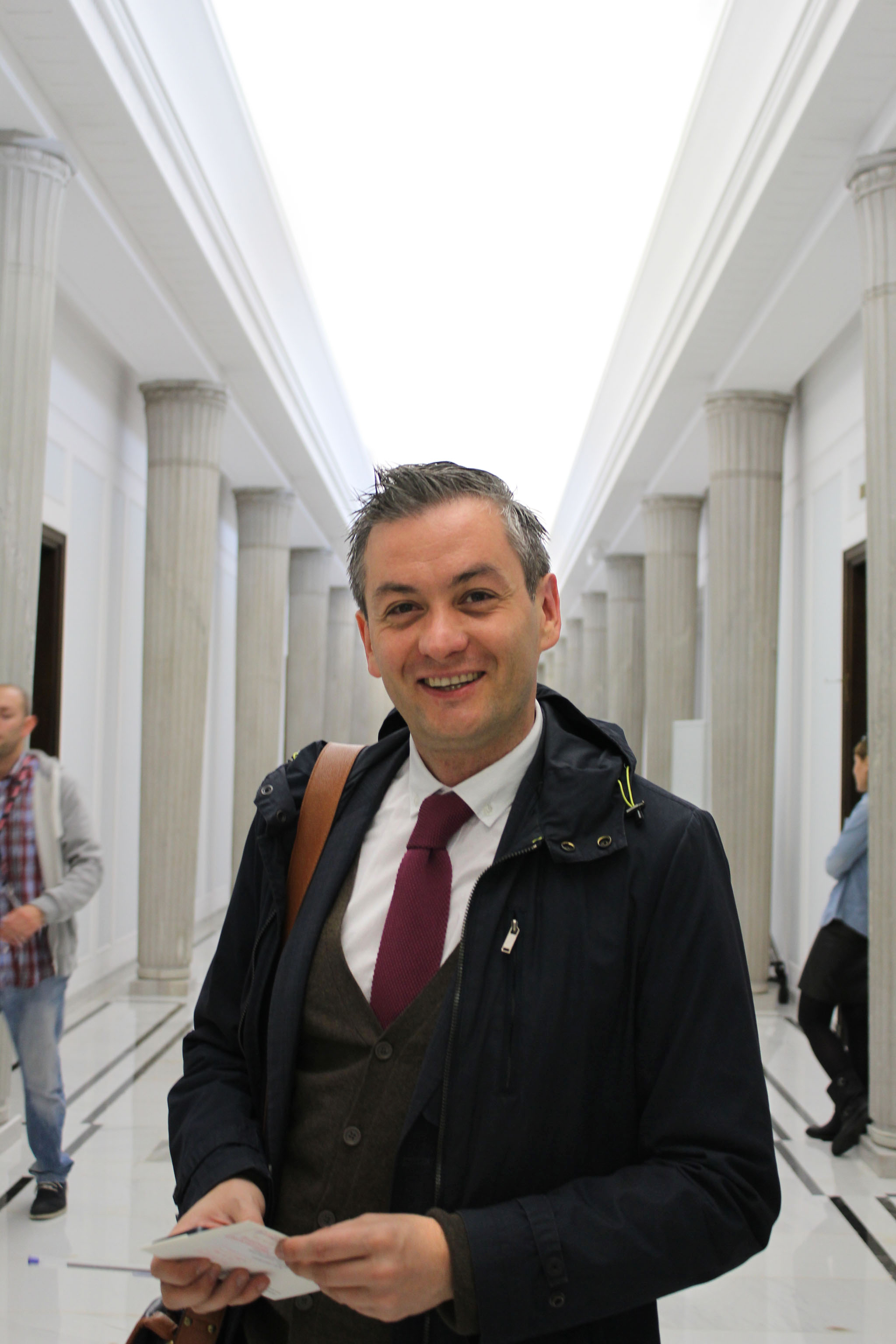 Wer dieses Bild benutzen möchte, der möge bitte den Link auf seiner Seite einbinden. If you want to use this picture, please implement the link on the website containing the picture.